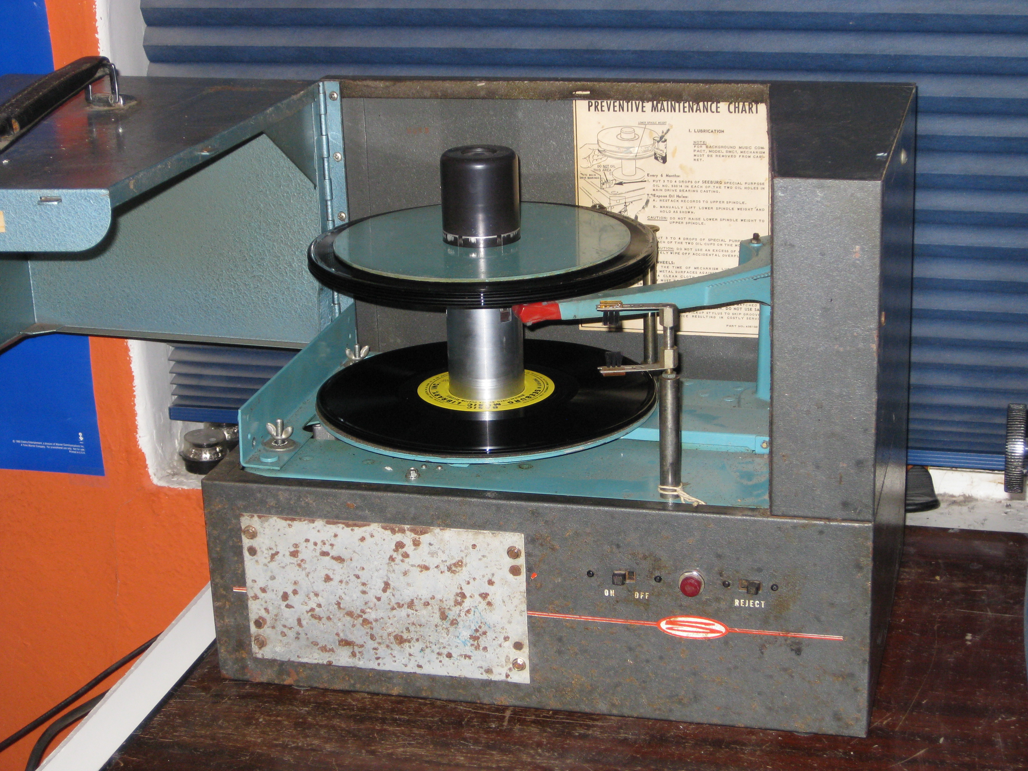 Seeburg 1000 Background Music System player type BMC1 in operation.